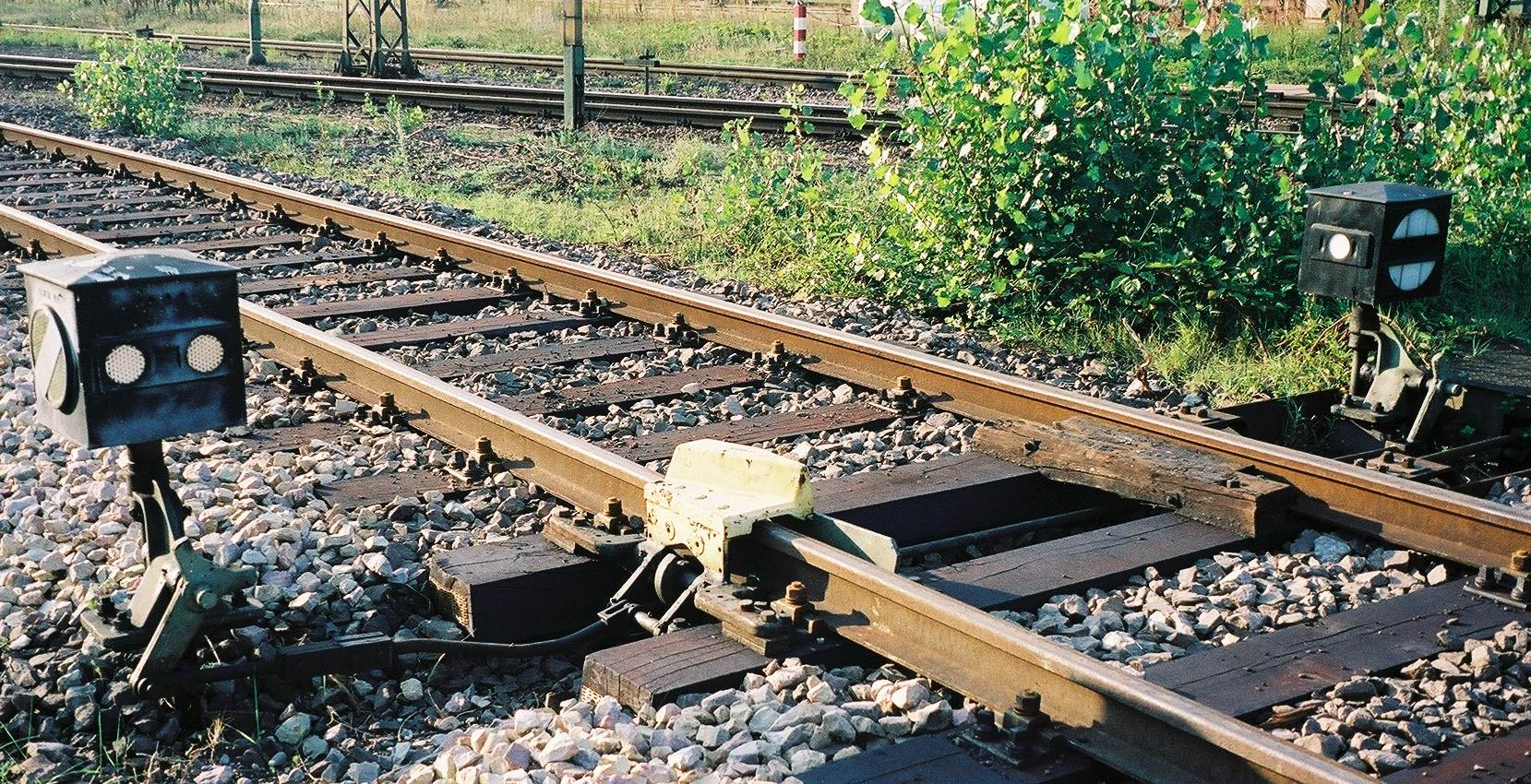 A derailing device in Mannheim, Germany my own photo